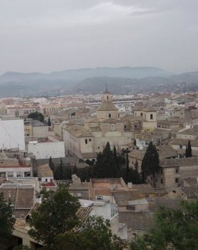 Church of the Jesuits, that is currently used as municipal cultural center (17th century)